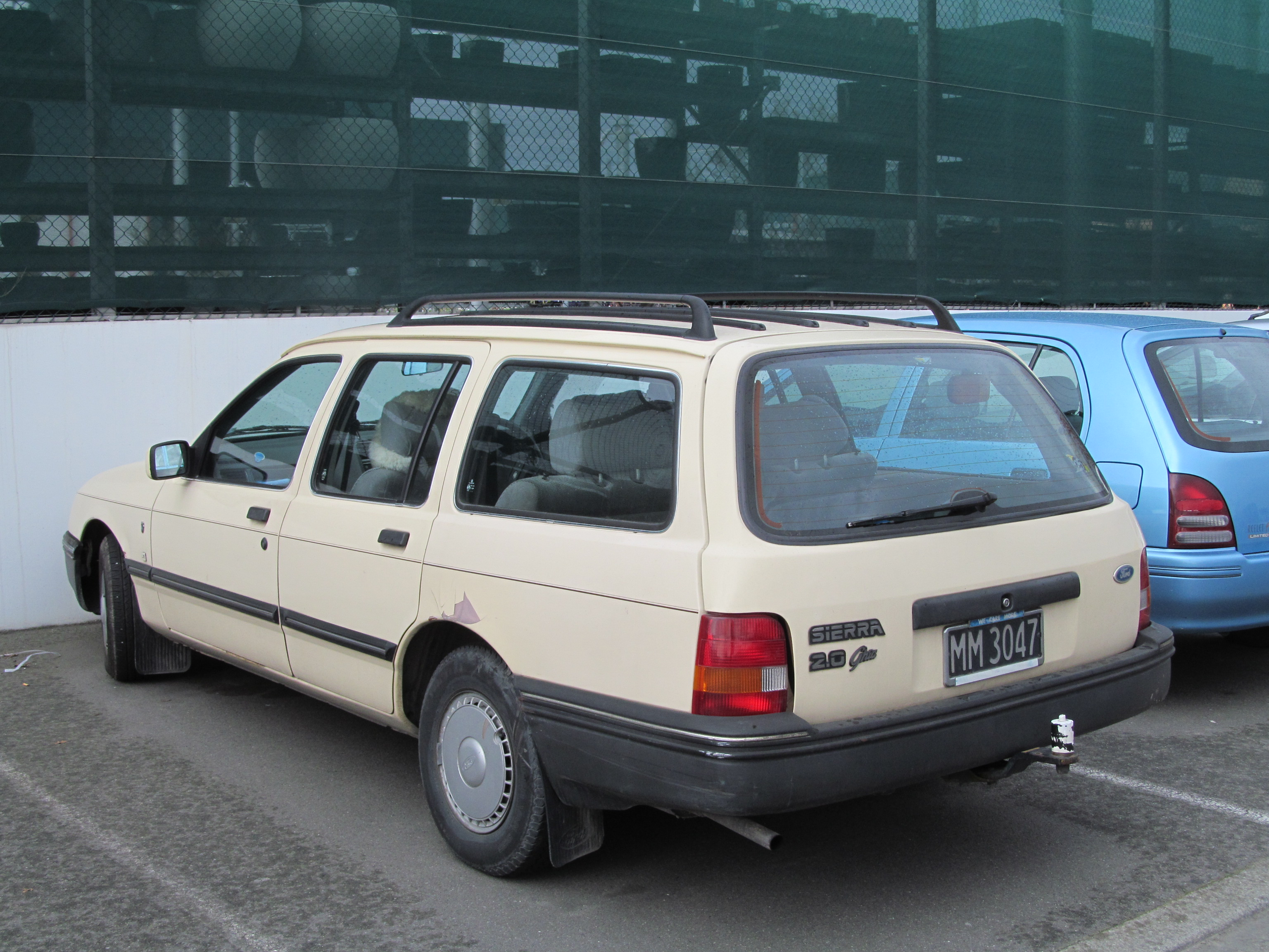 It's become worryingly difficult to see any Sierras now, so this was a pleasant surprise at Bunnings on a Sunday morning. I get the feeling that whoever owns this tidy beige estate example has had it for quite a while.